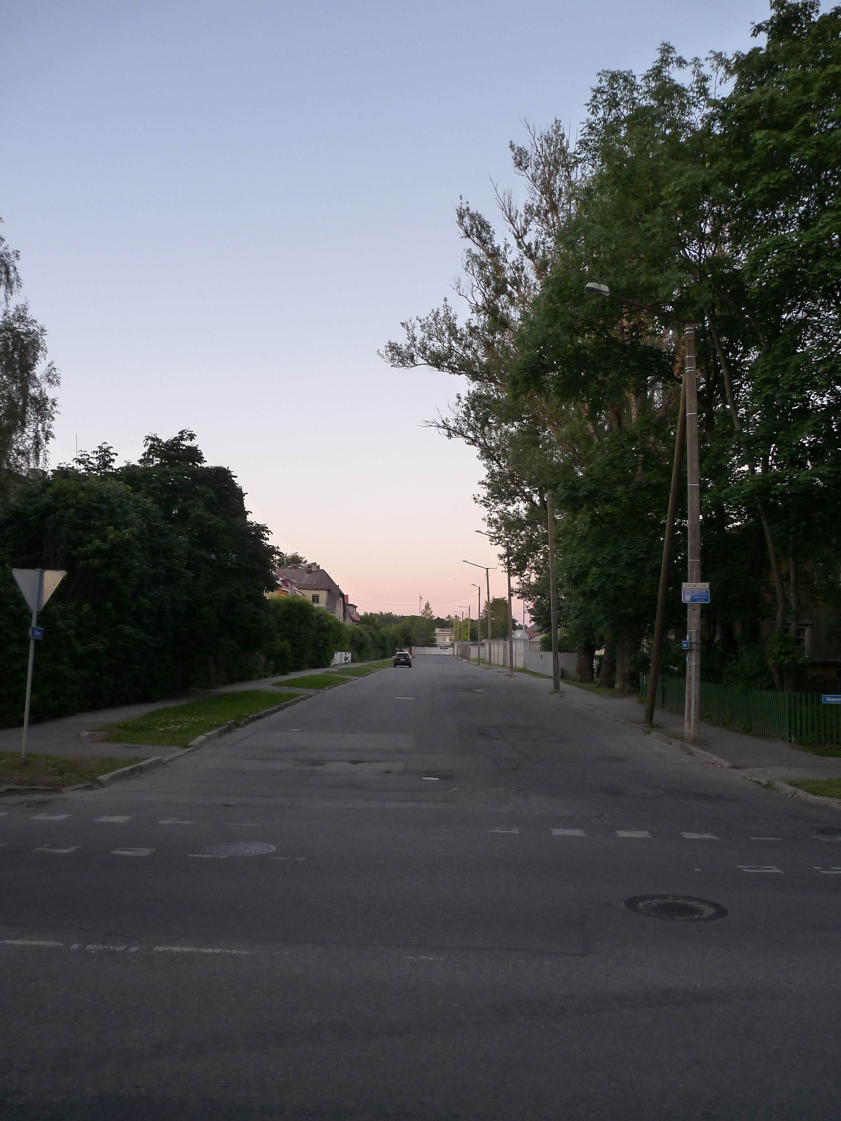 Õilme street in Tallinn, Estonia